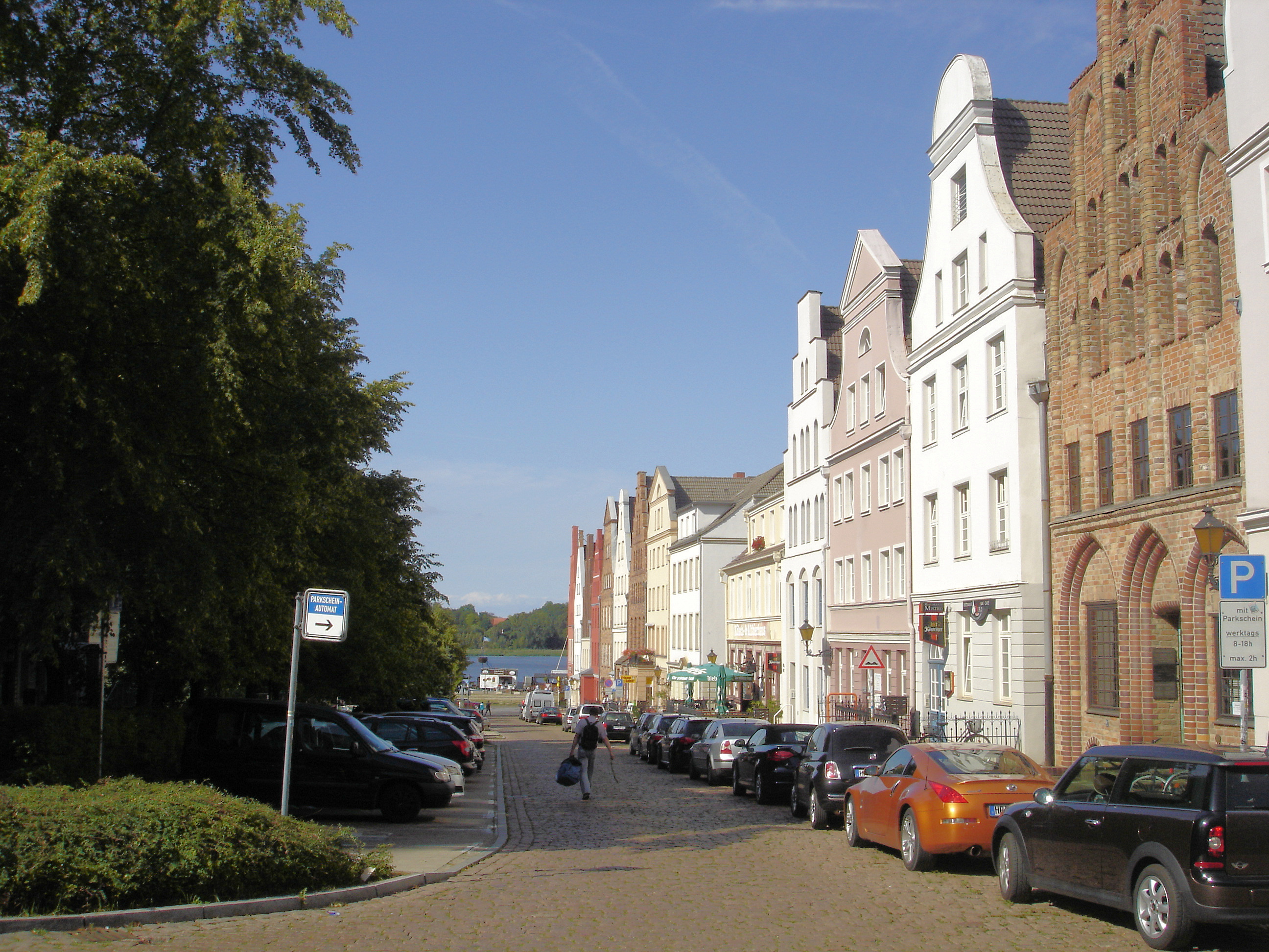 Street in the historic city of Rostock